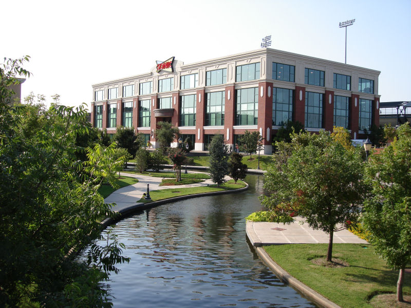 Sonic Drive-In corporate headquarters in 2008